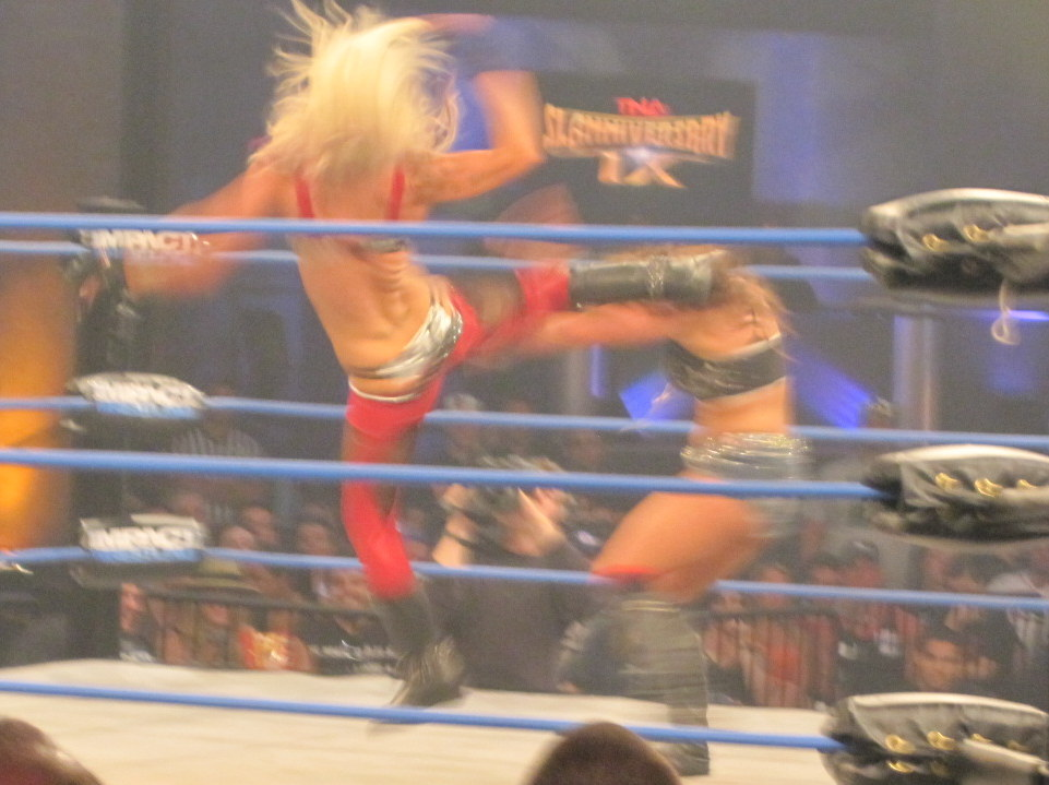 Sunday, June 12, 2011. Universal Orlando